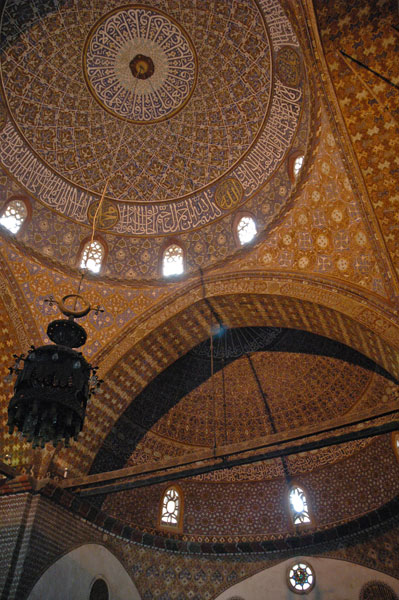 Sulayman Pasha Mosque. Citadel. Cairo. Egypt